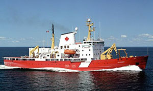 Consul General Friedman and local employee Sylvain Verreault visited the Canadian Research Icebreaker CCGS Amundsen before it left port Aug. 22 for Nunavut. The Consul General will be visiting Iqaluit, Pangnirtung, and Pond Inlet, in Nunavut Territory, Sept. 18-22.